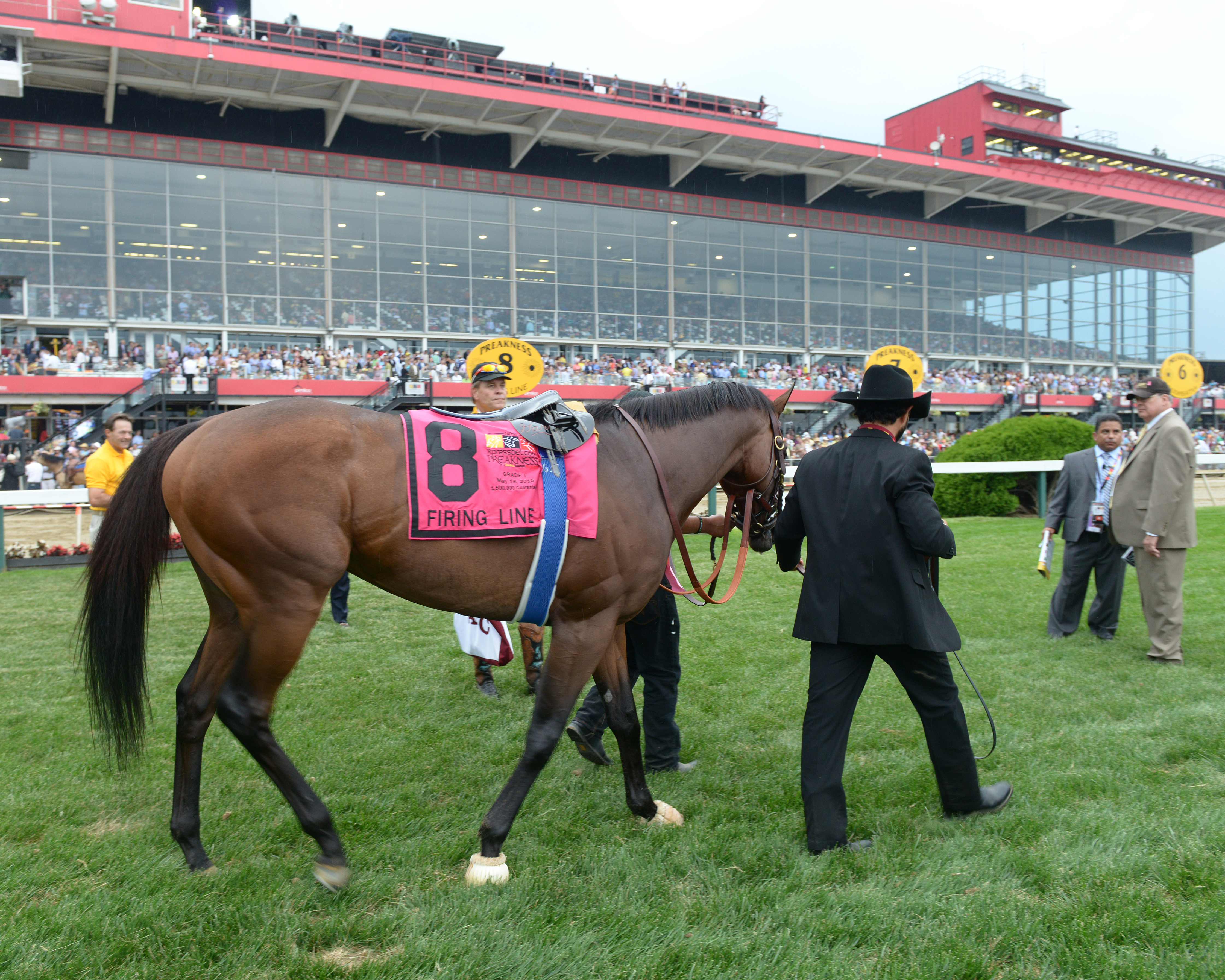 Governor Hogan attends 2015 Preakness Stakes by Tom Nappi at Pimlico, Baltimore, Maryland 2015 Preakness Stakes at Pimlico. A thunderstorm resulted in sloppy track conditions.